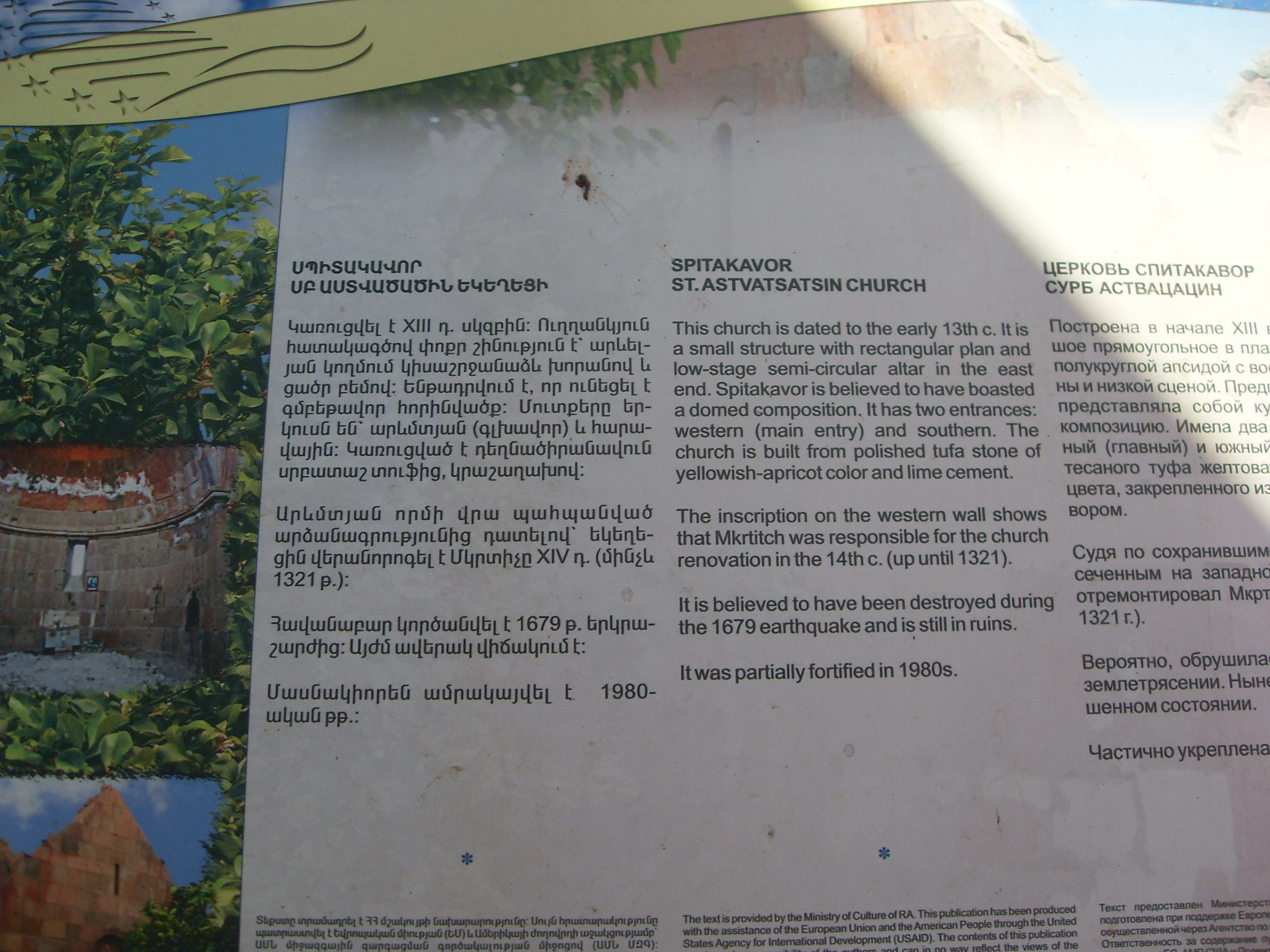 Spitakavor church, Ashtarak, Armenia 1/19